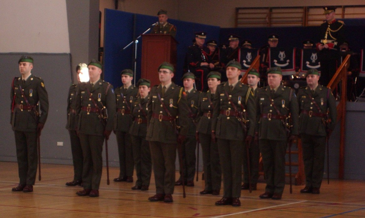 19th Reserve Potential Officer's Course on the commissioning parade.